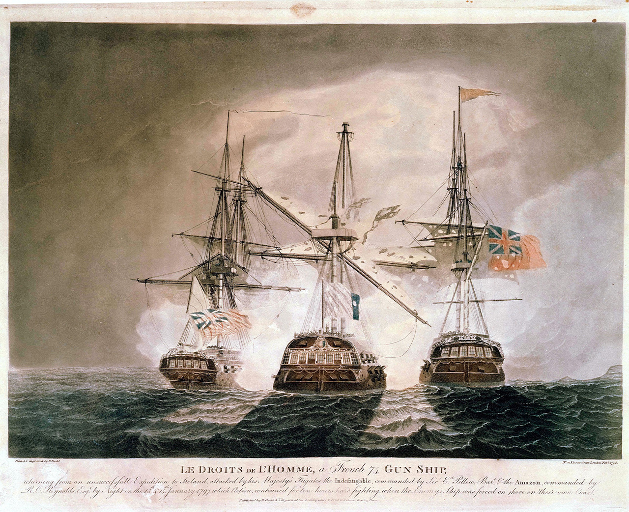 La Droits de L'Homme a French 74 Gun Ship, attacked by his Majesty's Frigates the Indefatigable & the Amazon on the 13th & 14th January 1797